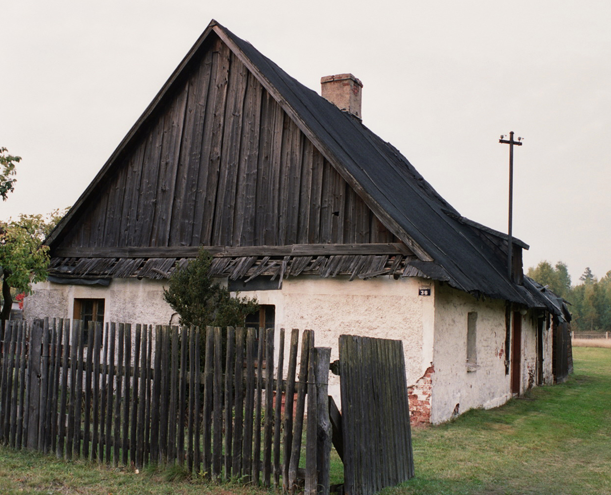 Author: Przykuta Date: November 2005